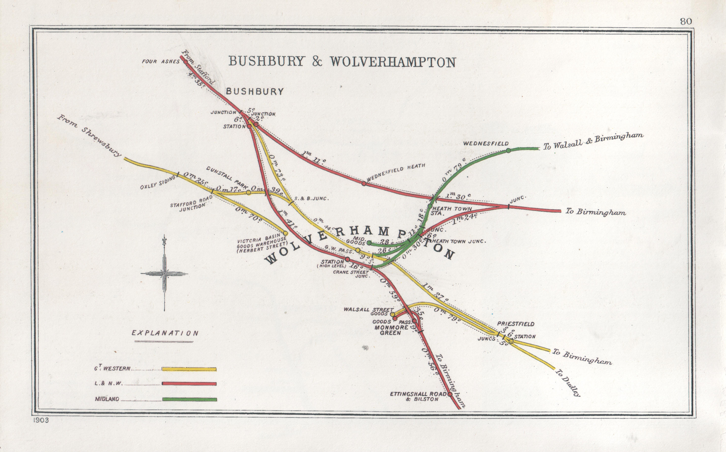 Pre Grouping railway junction around Bushbury & Wolverhampton